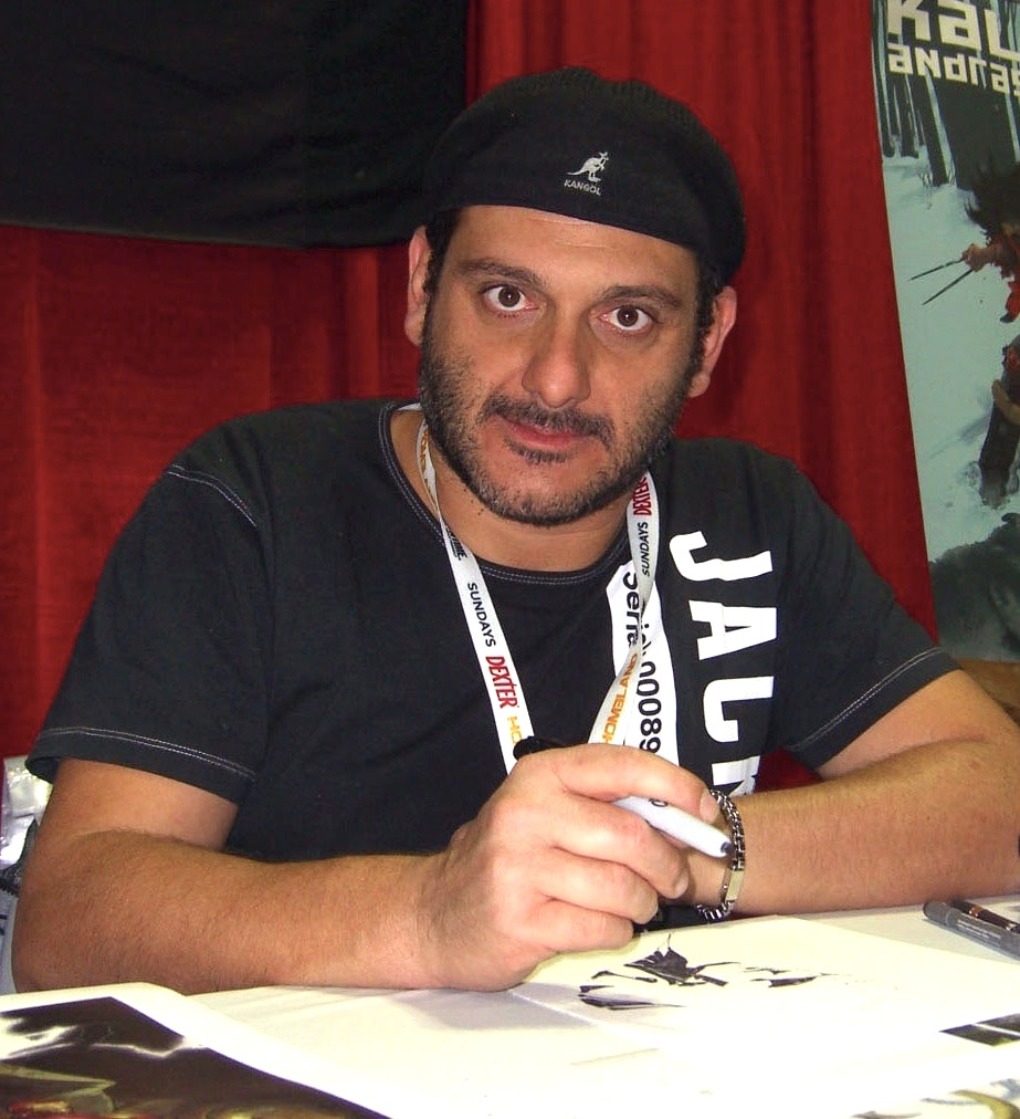 Comics creator Simone Bianchi on Day 3 of the 2012 New York Comic Con, Saturday October 13, 2012 at the Jacob K. Javits Convention Center in Manhattan. This photo was created by Luigi Novi. It is not in the public domain, and use of this file outside of the licensing terms is a copyright violation.